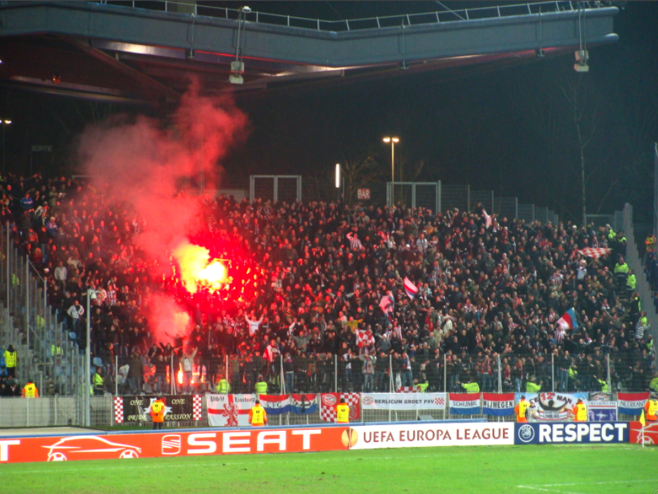 Supporters of PSV Eindhoven in Lille